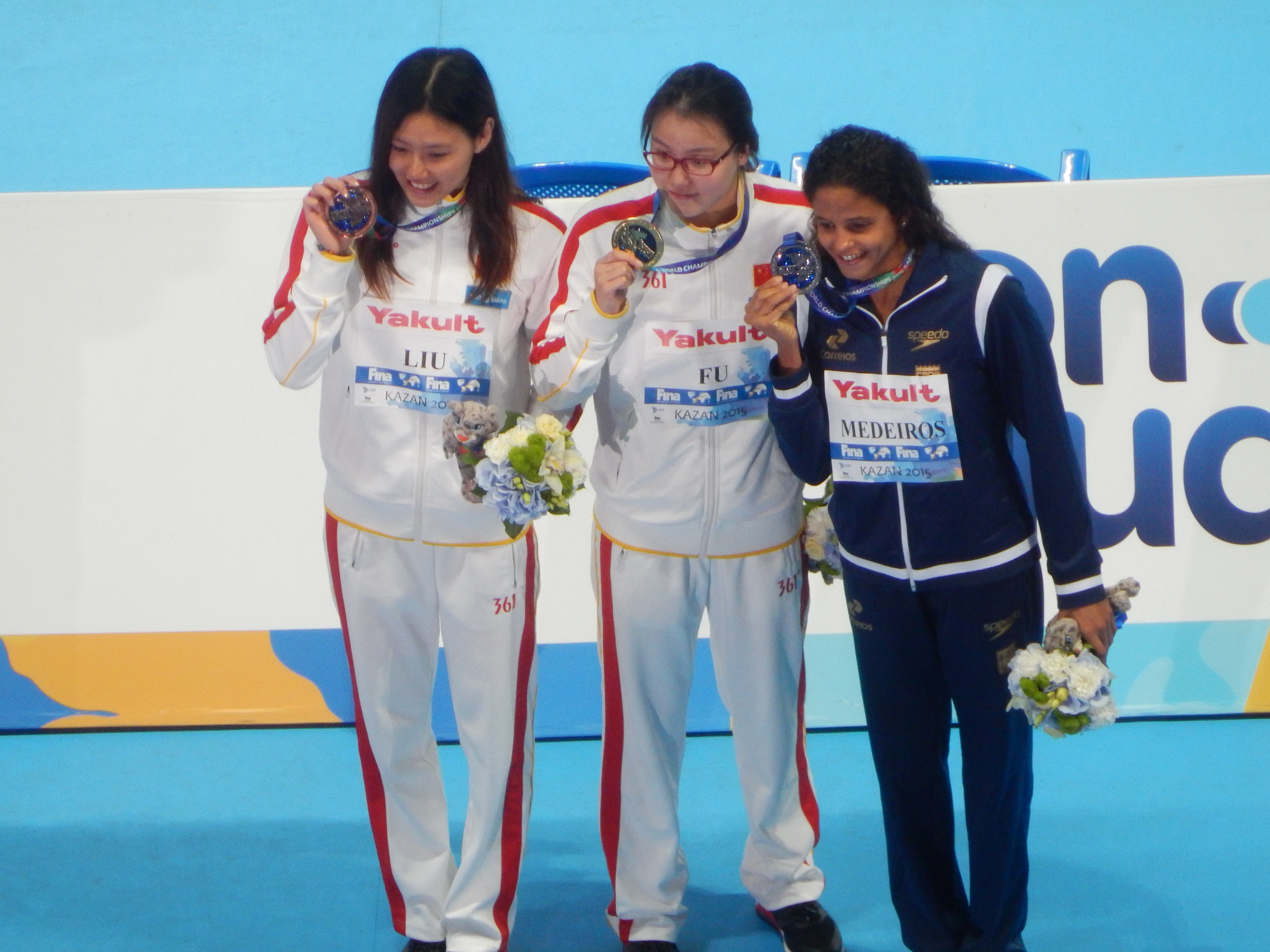 Medallists at the women's 50 metres backstroke in Kazan 2015, from left to right: Liu Xiang, Fu Yanhui and Etiene Medeiros